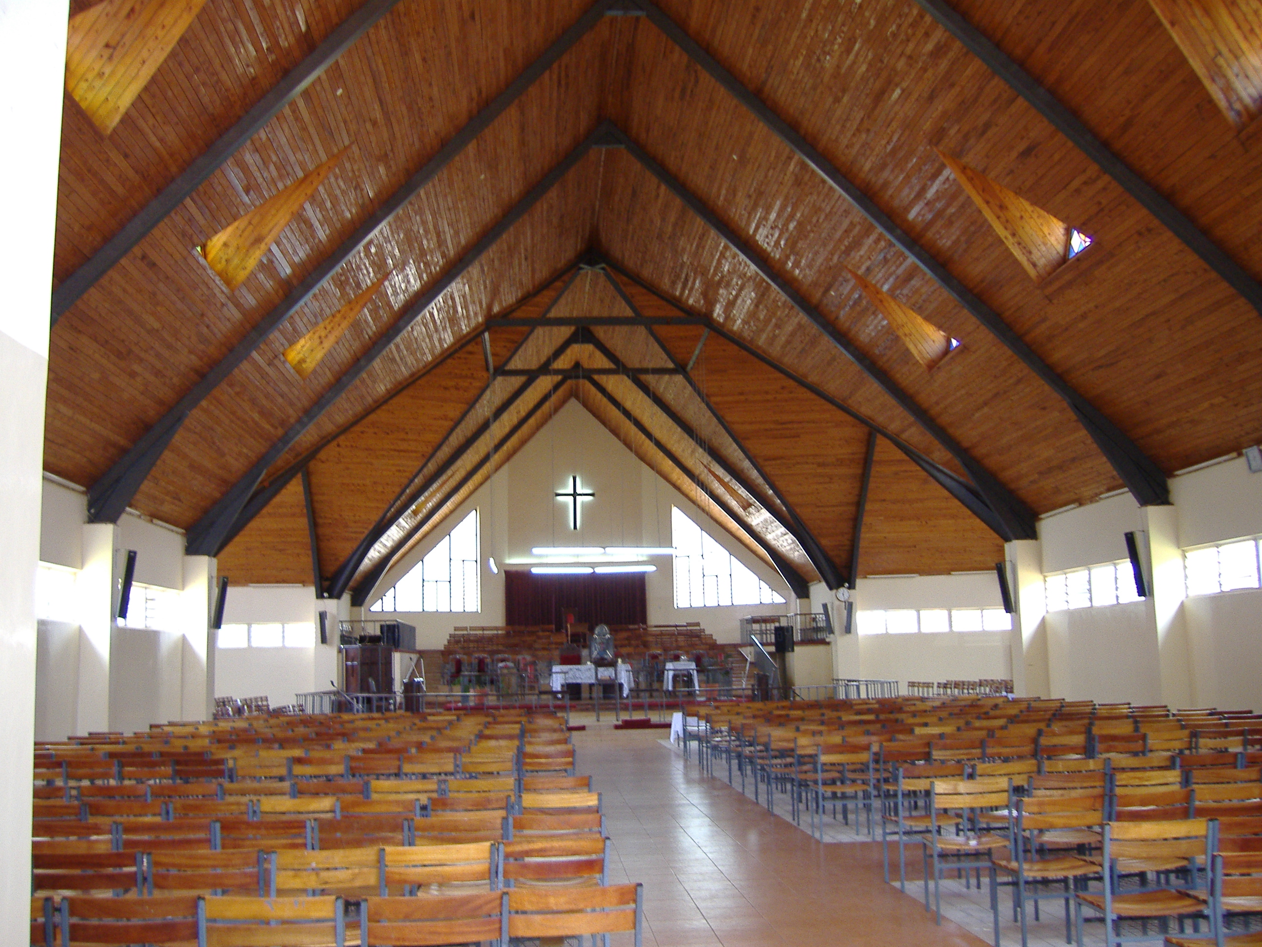 Inside Embu St Paul's Cathedral